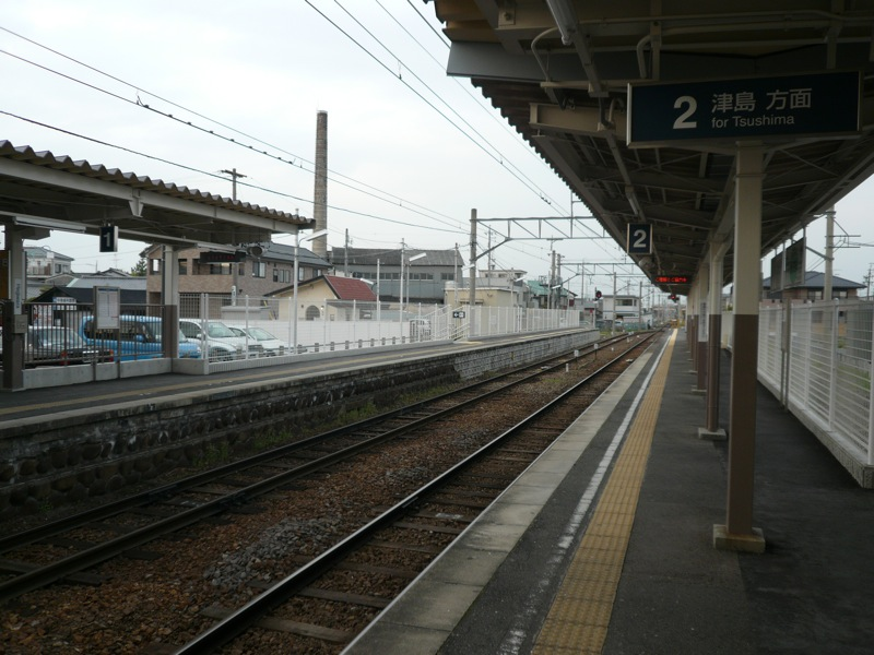 MEITETU Bisai-Line Hagiwara-station home.